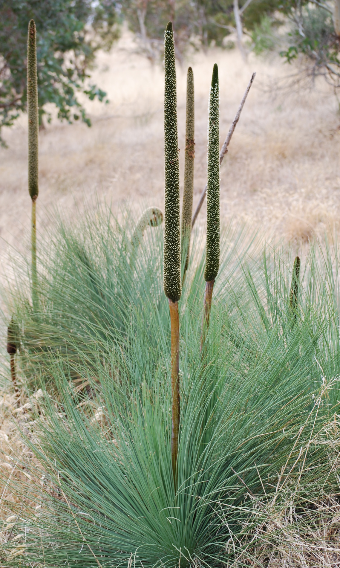 Xanthorrhoea semiplana or Yakka near the top of Anstey Hill Recreation Park, South Australia